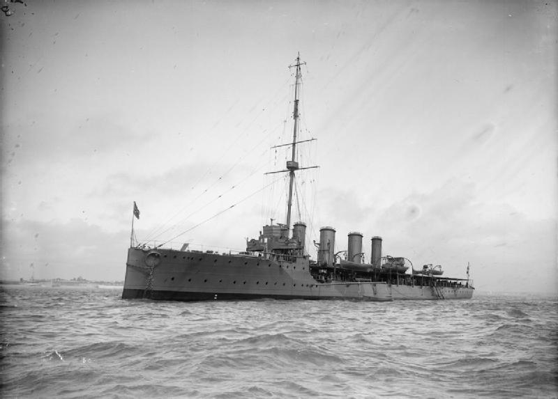 British scout cruiser HMS BELLONA.